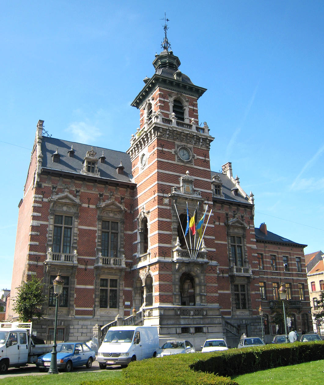 Anderlecht town hall